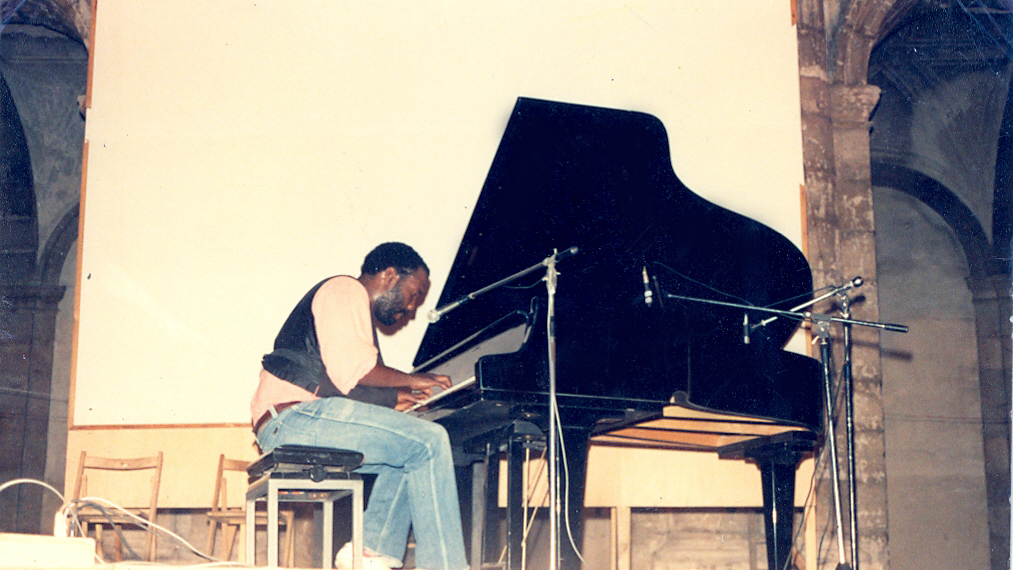 Yul Anderson 1st Amnesty Concert Rome December 10, 1982